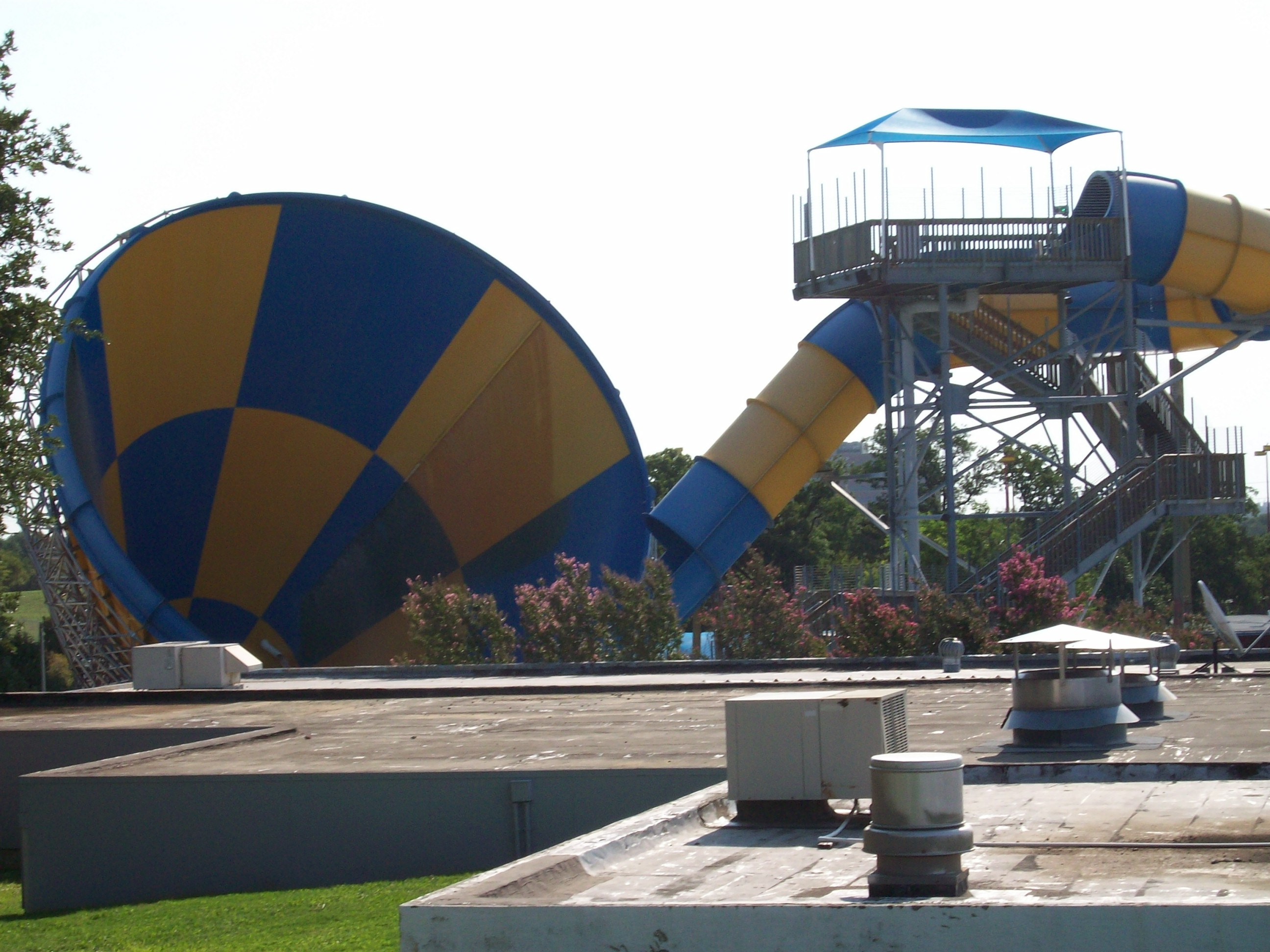 a shot of the tornado park ride at Hurricane Harbor at Arlington, Texas